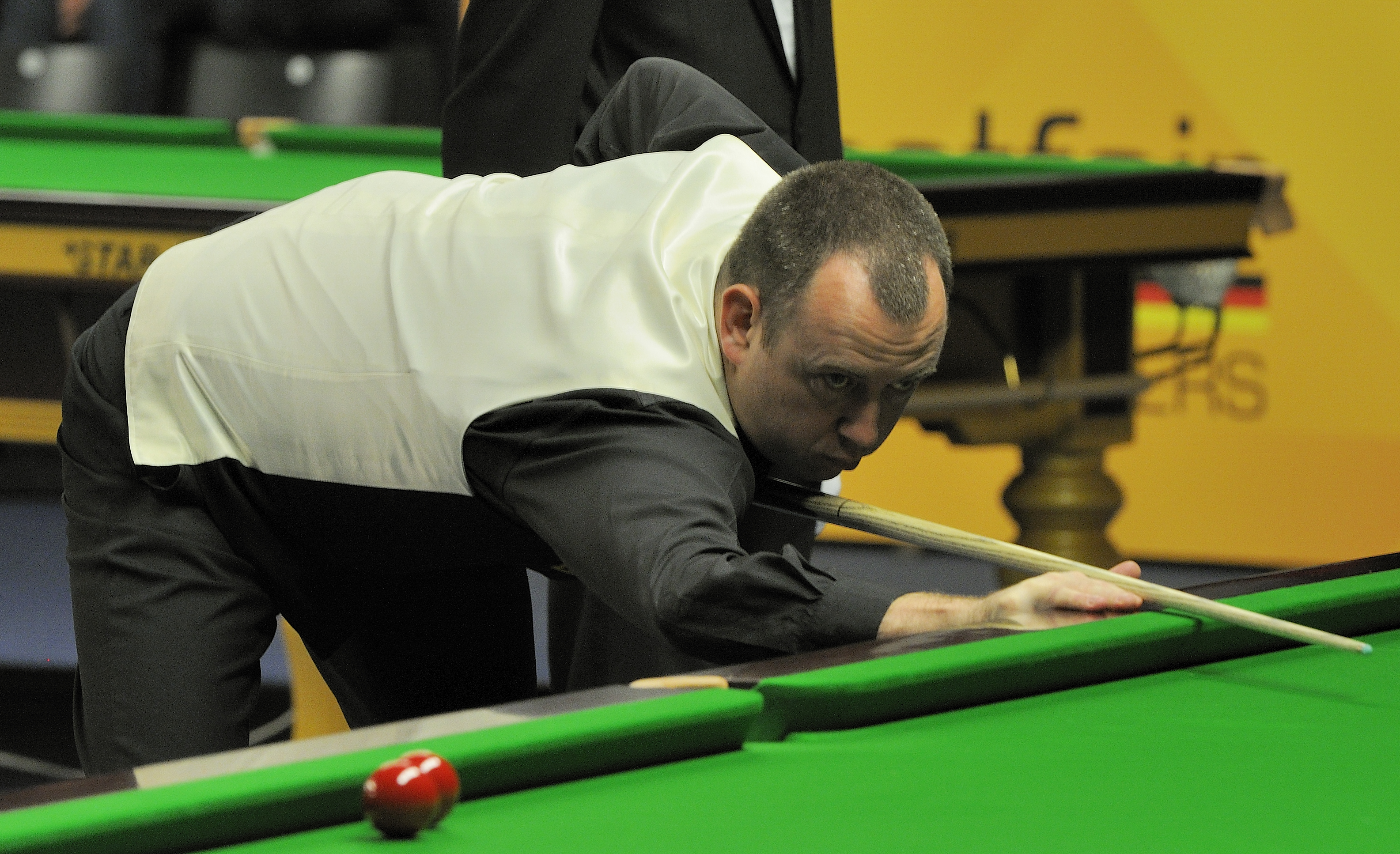 Picture taken in Berlin during the Snooker German Masters in 2013. Mark Williams.